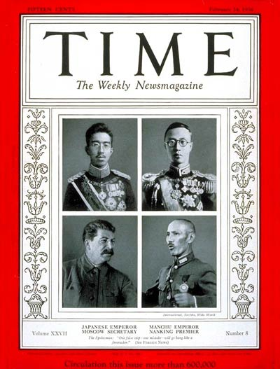 Time magazine, Feb. 24, 1936The cover shows Hirohito, Pu Yi, Stalin & Chiang.